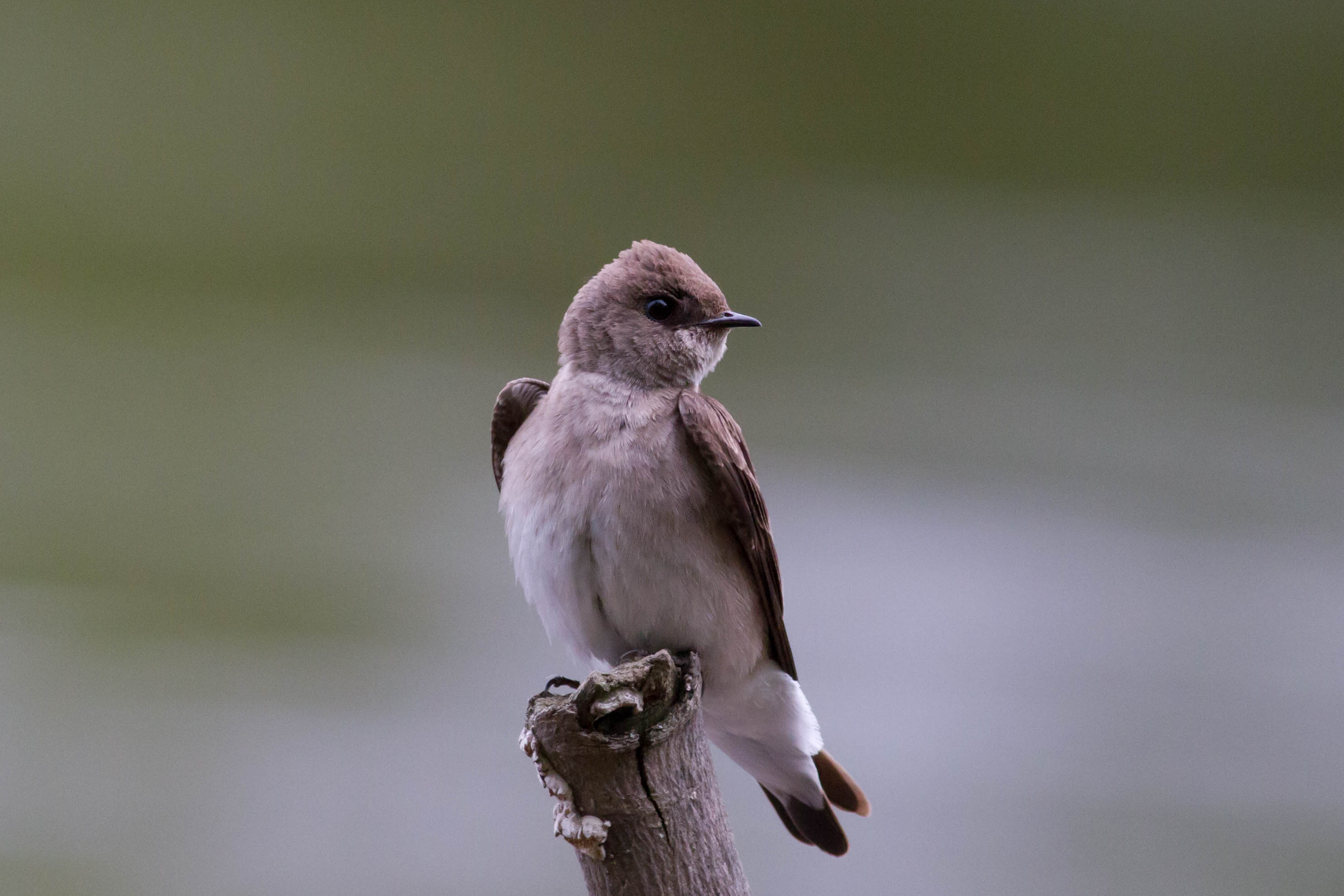 Northern rough-winged Swallow (Stelgidopteryx serripennis) above the Mississippi on Pike Island in St. Paul Minnesota